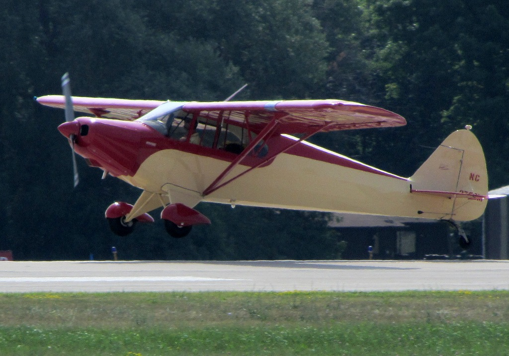 Piper PA-12 Super Cruiser Landing